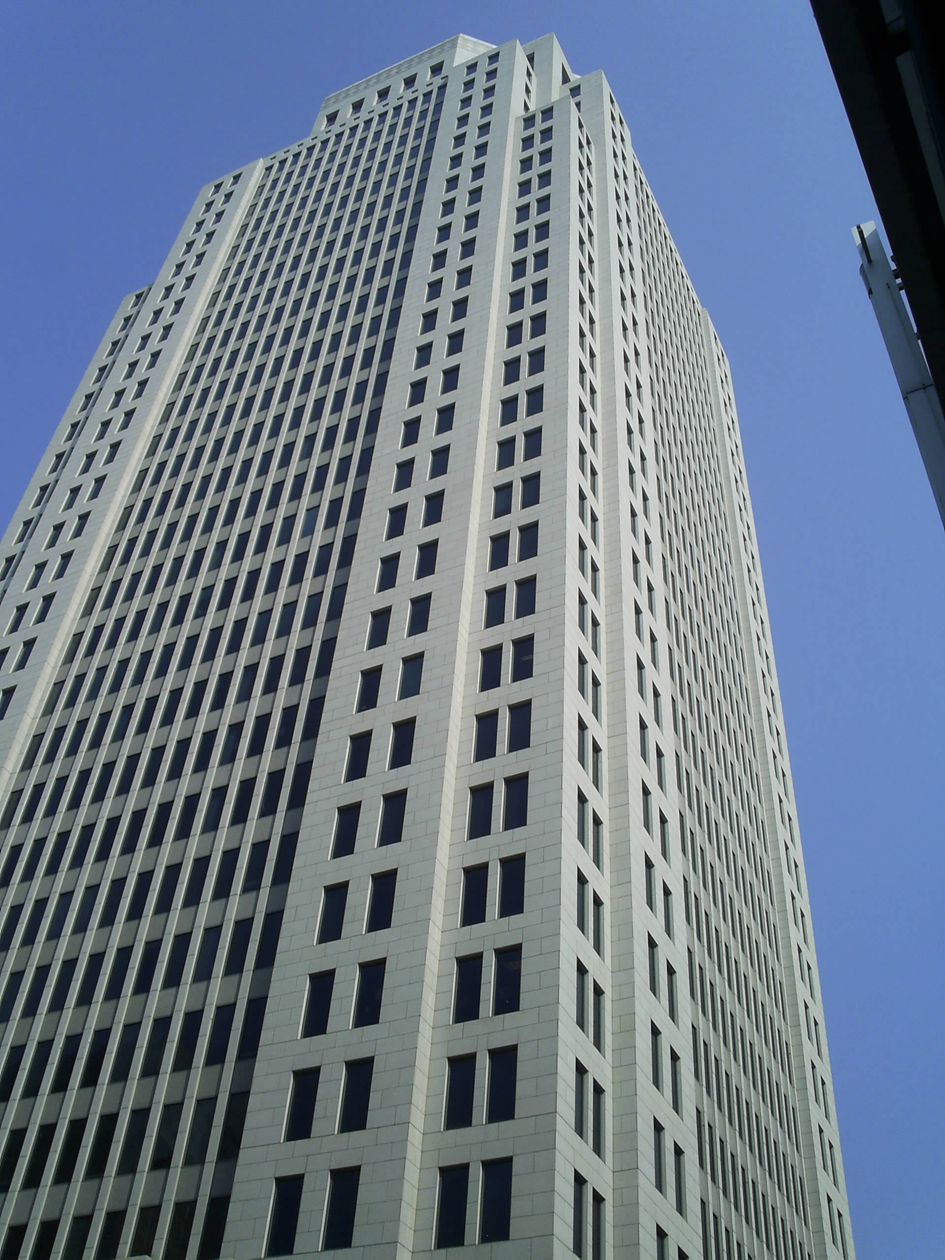 The AEGON Center in Louisville, Kentucky.